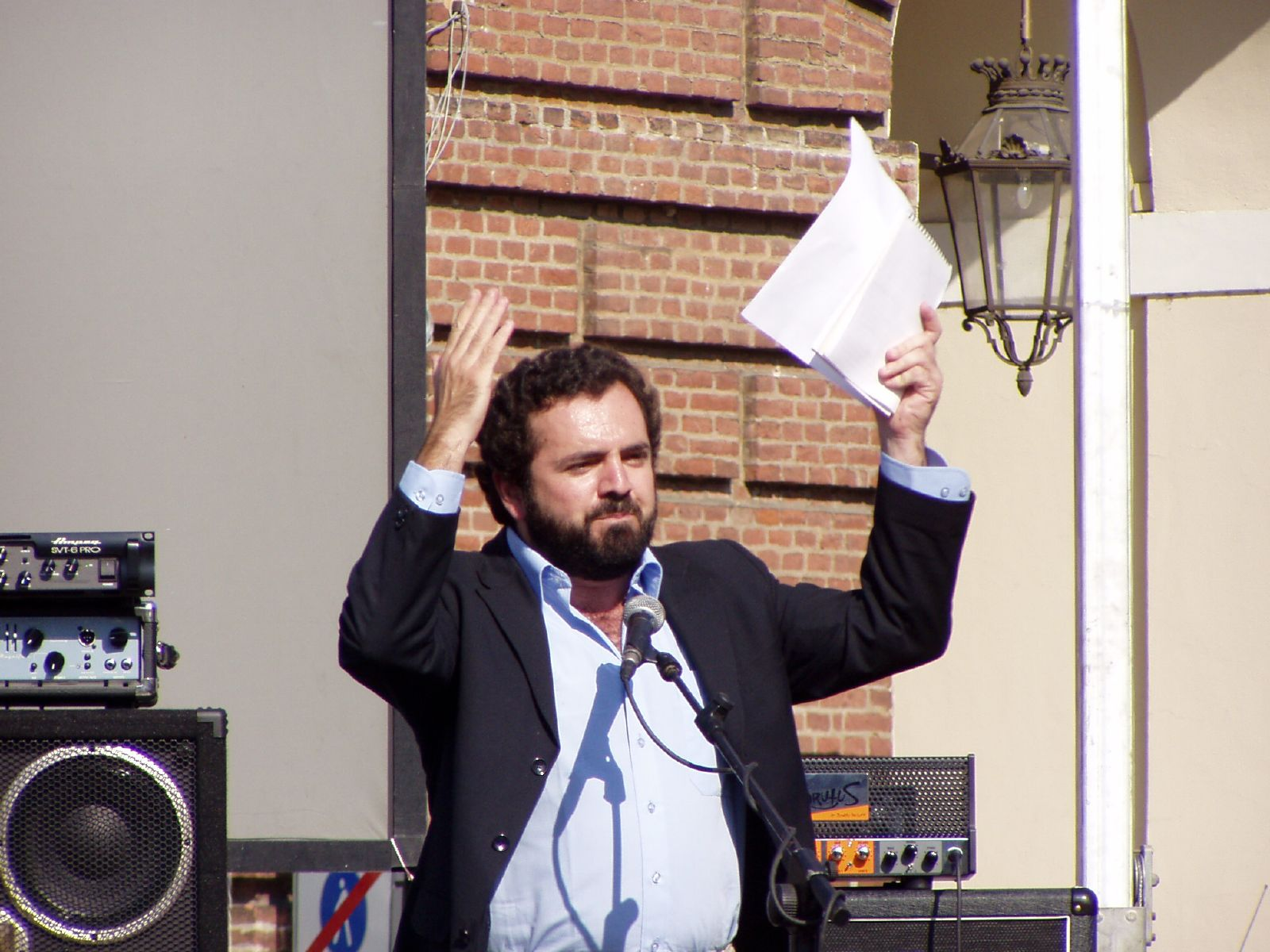 Piero Ricca, Italian activist and blogger, in Turin 2007 V-Day